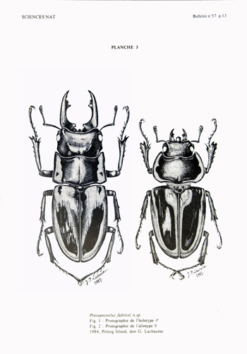 A drawing of Lucanidae by Jean-Pierre Lacroix